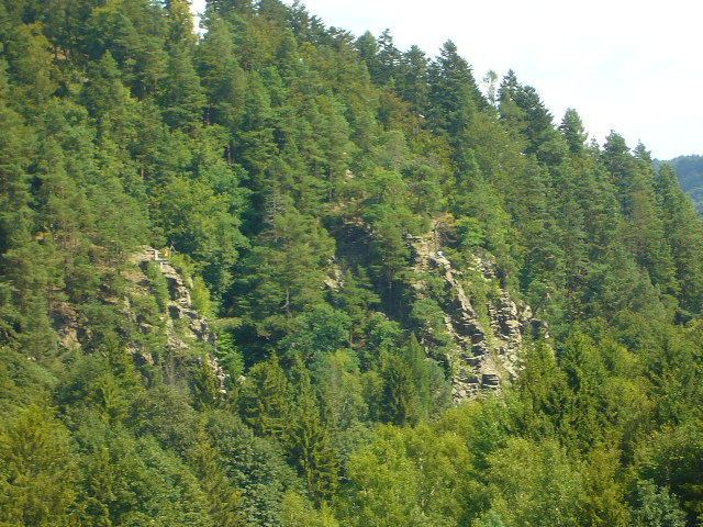 Training rock near the Kružberk dam.